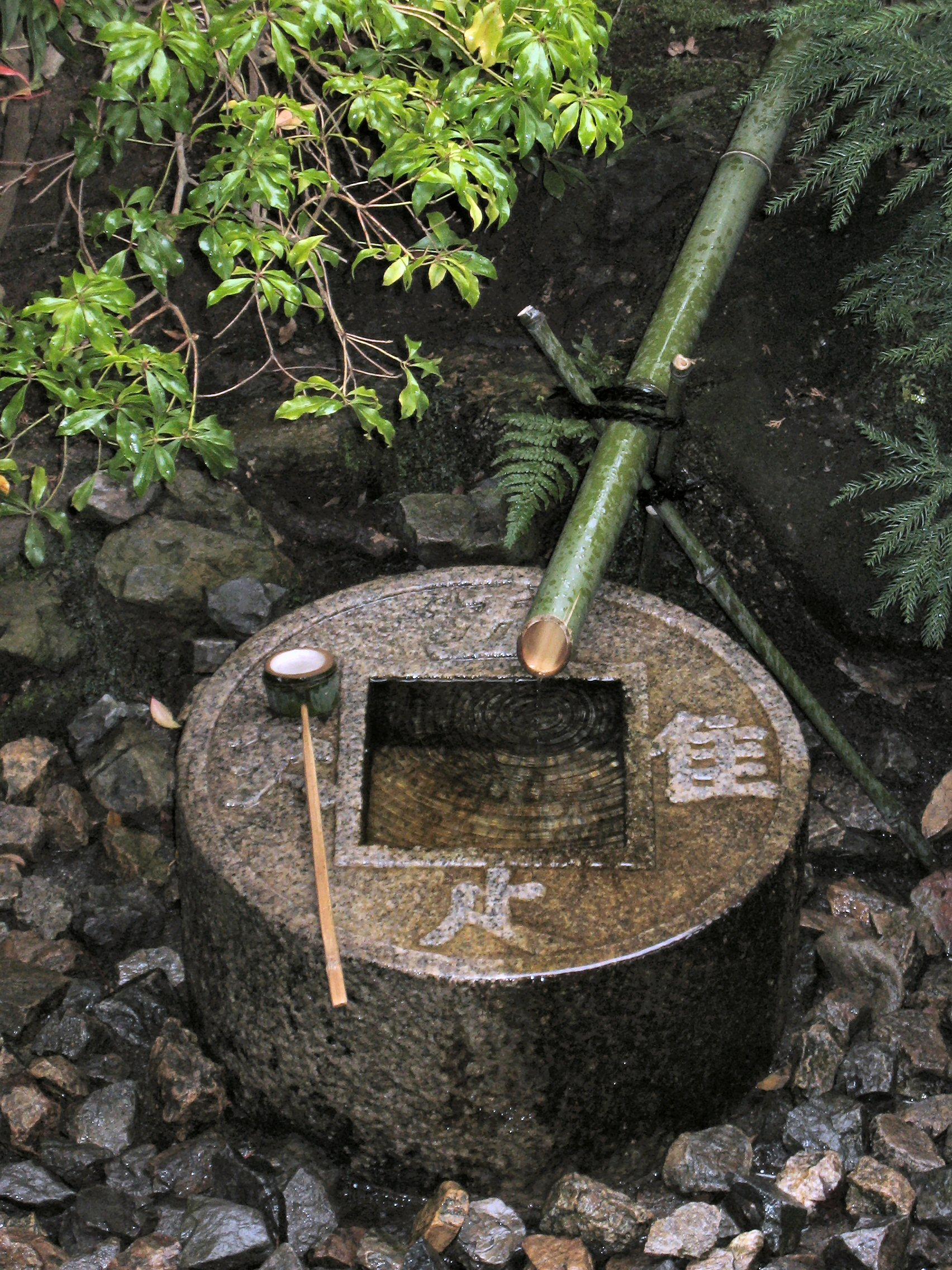 Tsukubai at Ryoanji temple in Kyoto The kanji written on the surface of the stone are without significance when read alone, but: When each is read in combination with 口 (kuchi), which the central bowl is meant to represent, the characters become 吾, 唯, 足, 知. This is read as "ware tada tare o shiru" and translates literally as "I only know plenty" (吾 = ware = I, 唯 = tada = only, 足 = tare = plenty, 知 = shiru = know). This phrase has been translated in several ways, like "I learn only to be contented." or "I just know satisfaction." or "The knowledge that is given is sufficient." None of those translations seems appropriate - the meaning is rather "What One Has is All One Needs.", one of the basically anti-materialistic teachings of Buddhism. The phrase would serve as a kind of mantra.